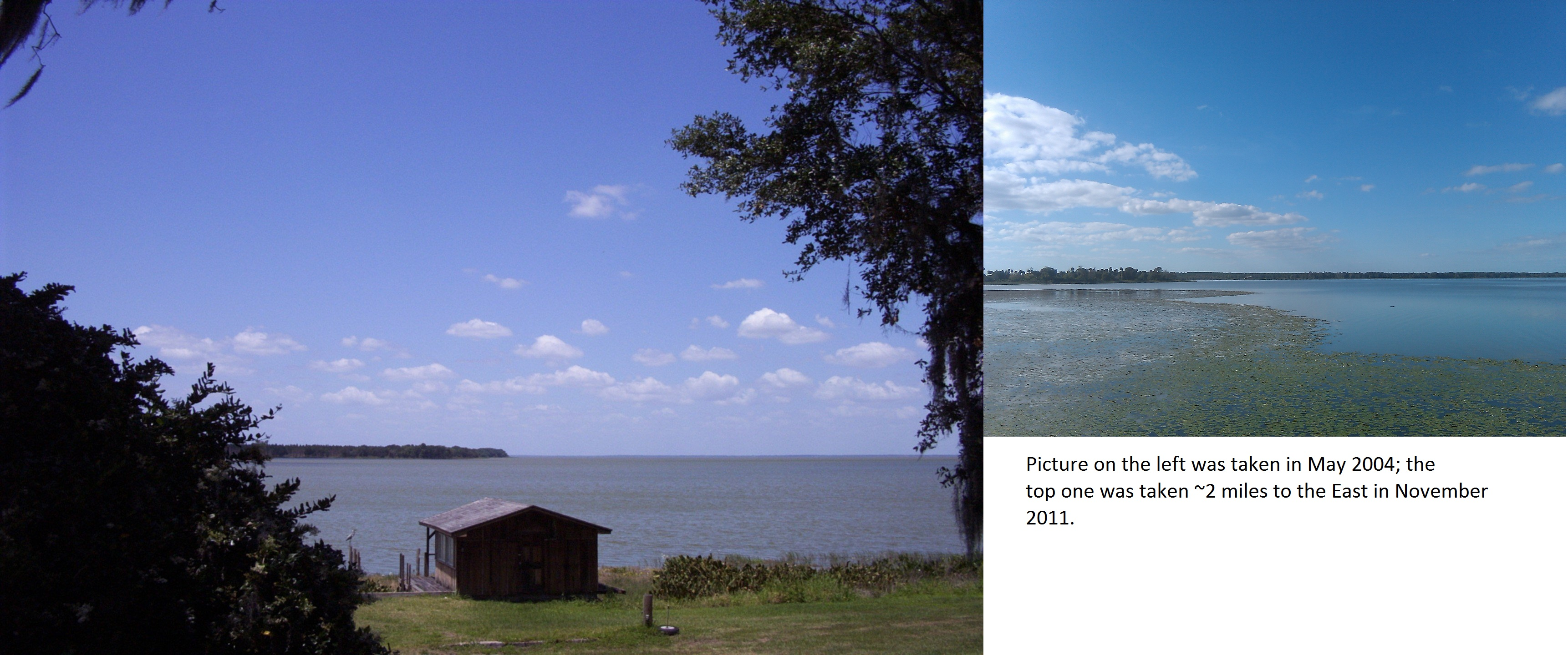 Comparison of a camera photo taken in 2004, with a camera-phone picture from 2011. Both pics were taken near Oakland, Florida.